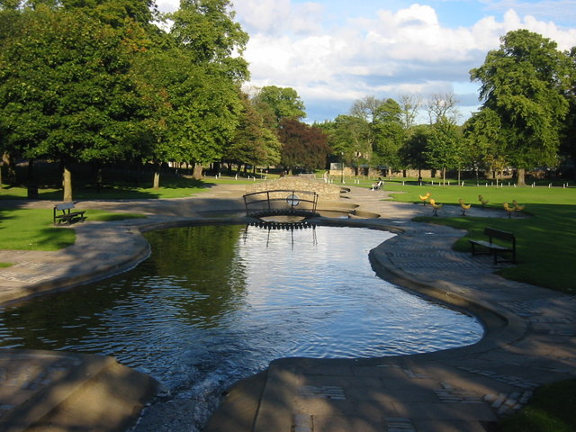 A pond in Westburn Park, Aberdeen formed from the channelled Denburn.